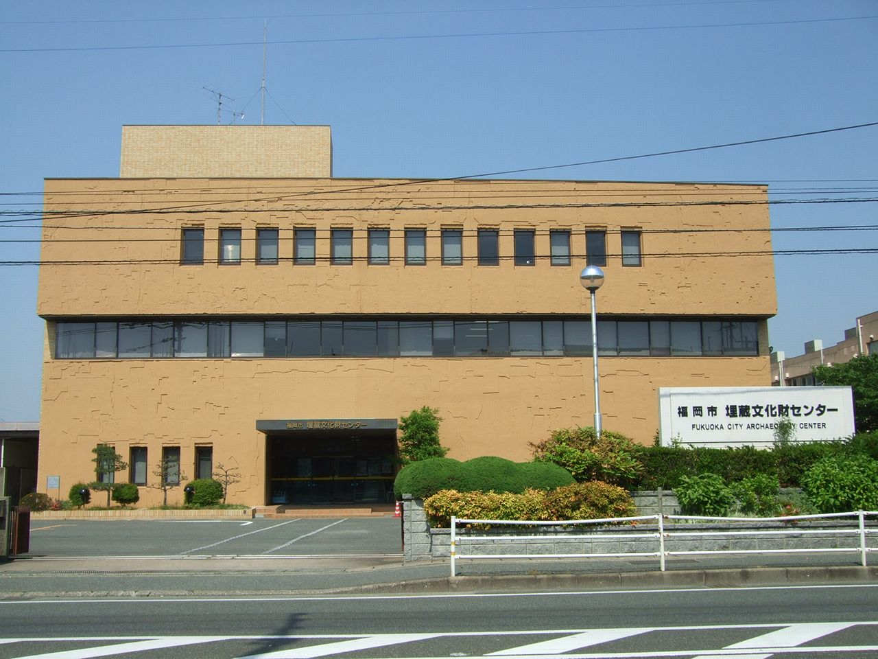 Fukuoka City Archaeology Center, Hakata Ward, Fukuoka City, Fukuoka, Japan.